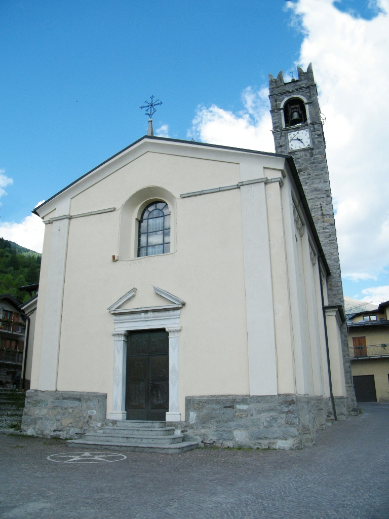 Church of St. Mary. Pontagna, Temù, Val Camonica